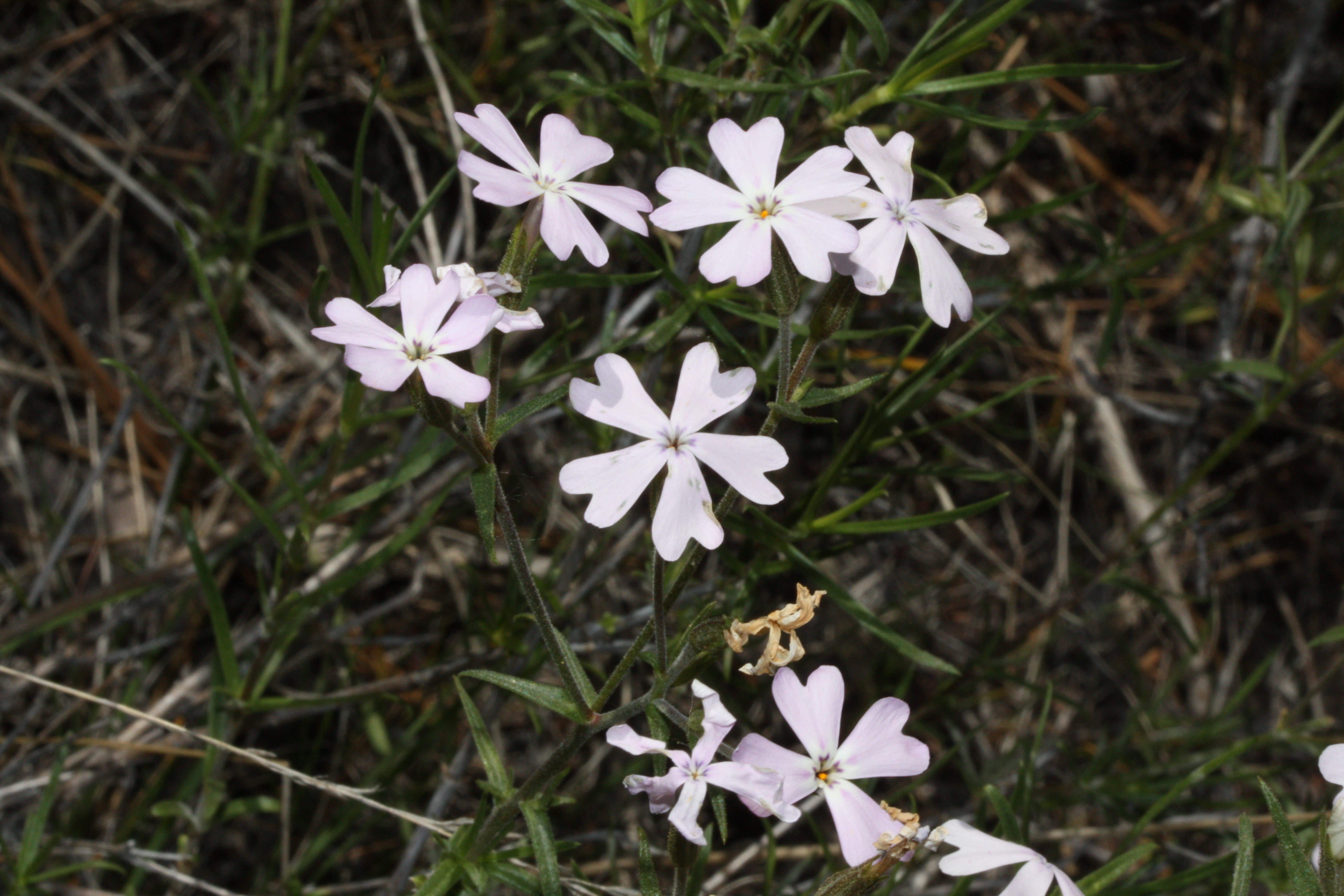 Showy Phlox